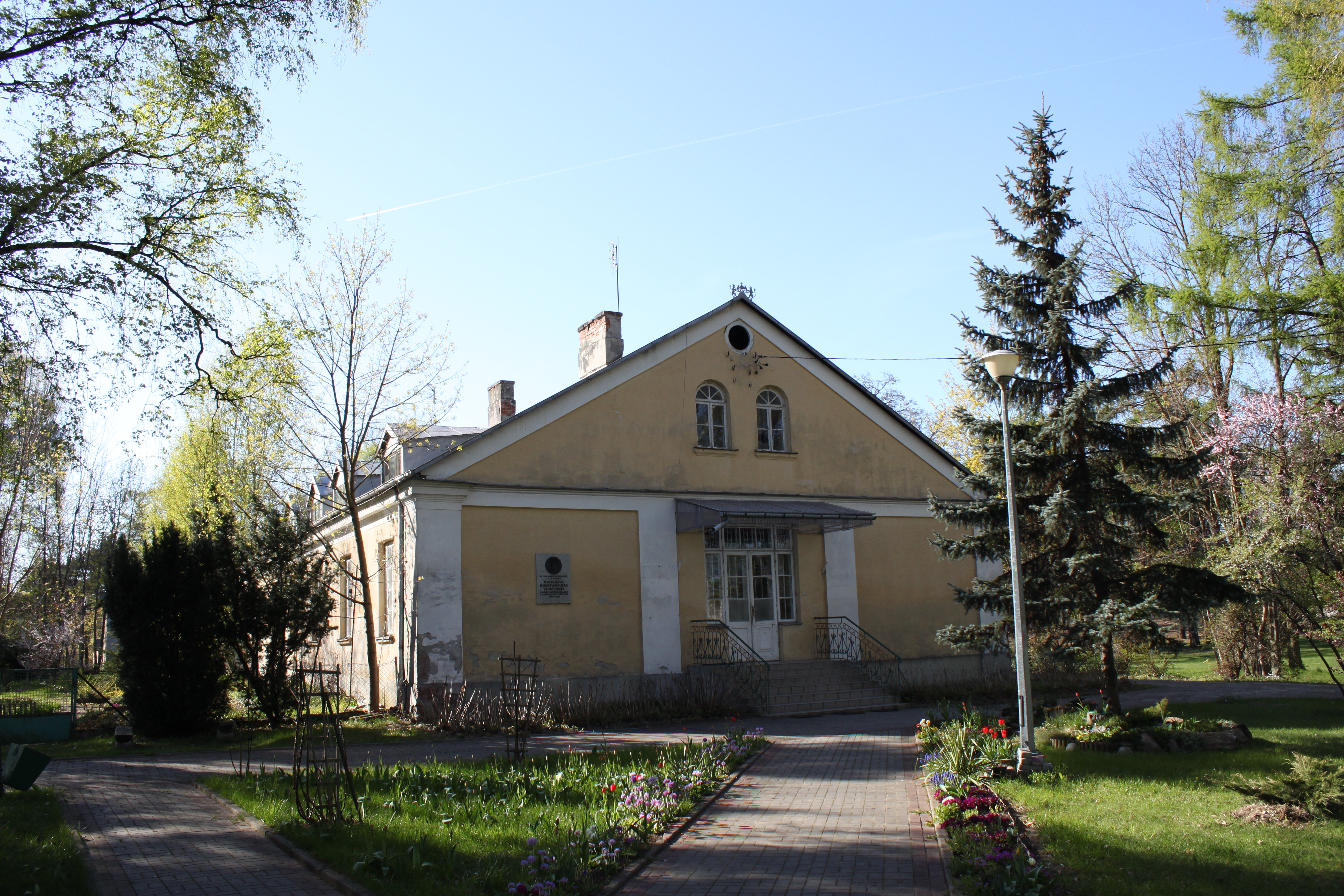 Czerwony Dwór in Pustelnik, Marki, Poland